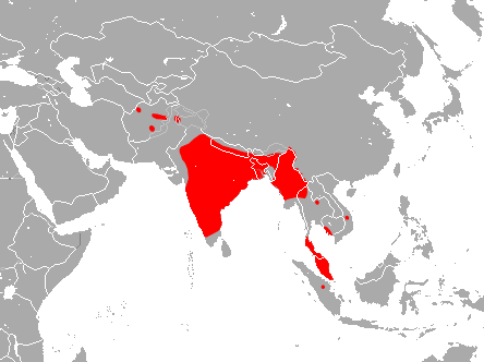 Blyth's Horseshoe Bat (Rhinolophus lepidus) range